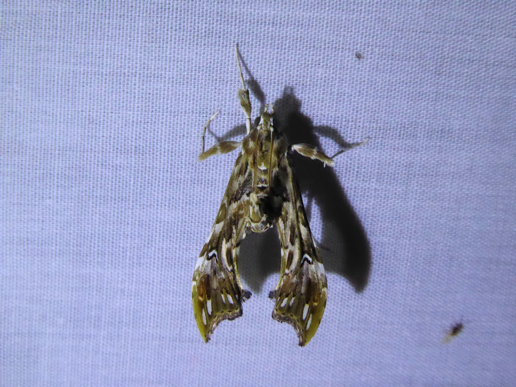 Rhectosemia spp. Species of insect in the genus Rhectosemia.